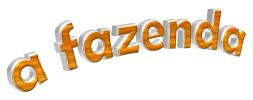 Logo of the brazilian reality show of Rede Record, A Fazenda.